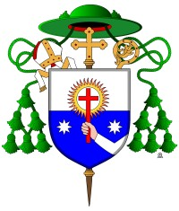 Coat of arms of Josef Gross, Bishop of Litoměřice